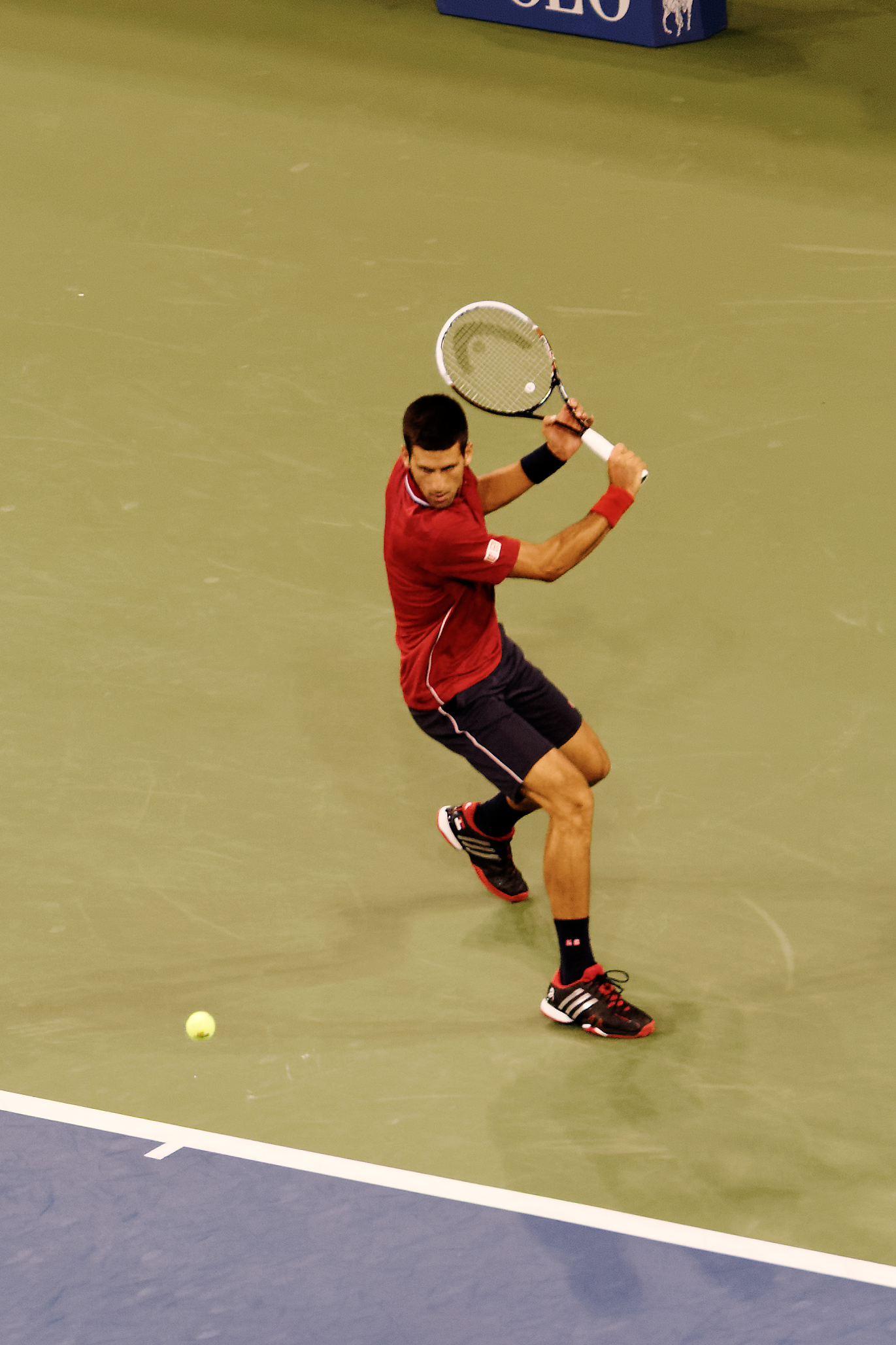 The 2014 US Open is a tennis tournament played on the outdoor hard courts. It is the 134th edition of the US Open, the fourth and final Grand Slam event of the year. It is currently taking place at the USTA Billie Jean King National Tennis Center. Roger Federer Ana Ivanovic Bill Diblasio David Dinkins Martina Navratilova